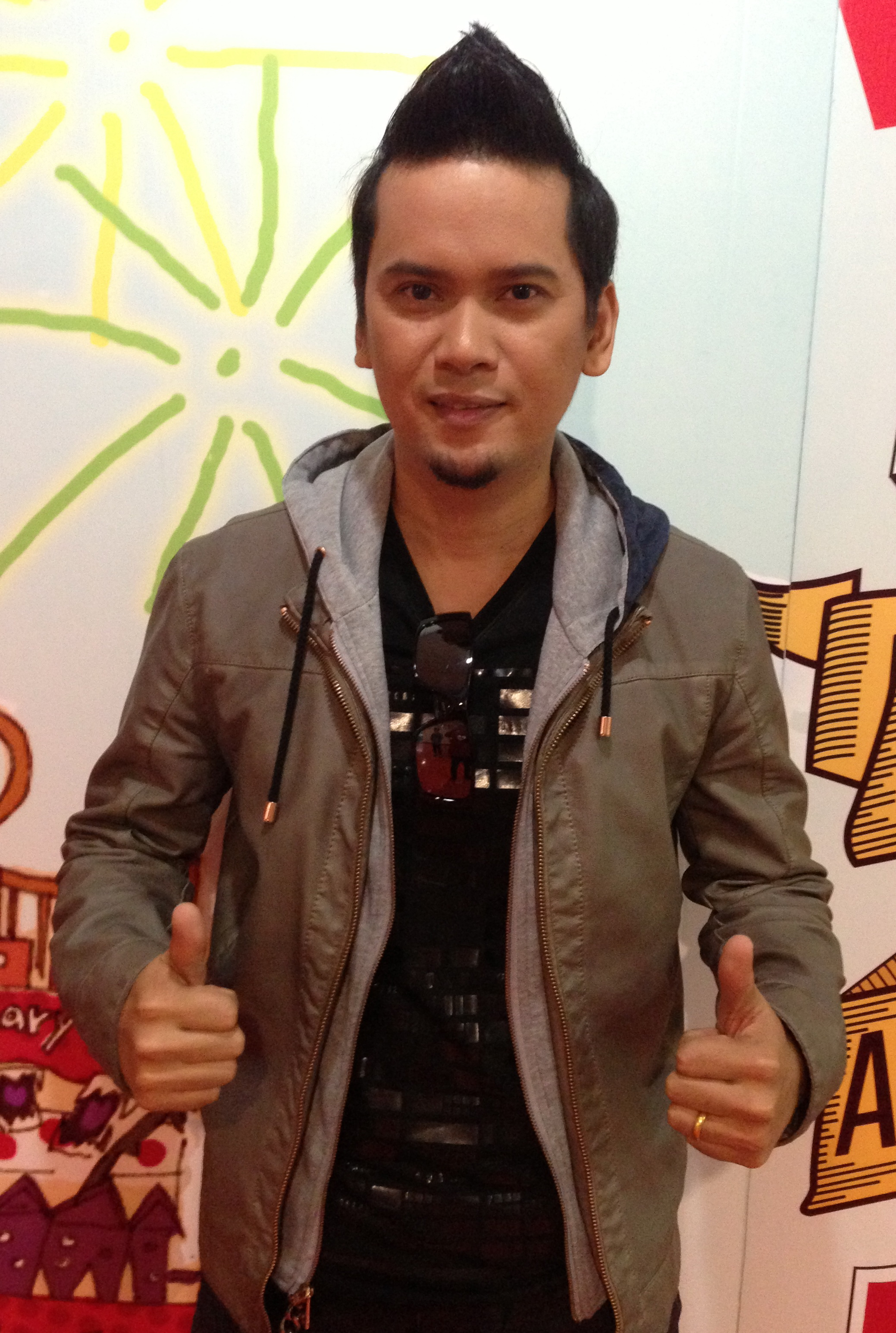 Chirasuk Panphum at VERY TV.